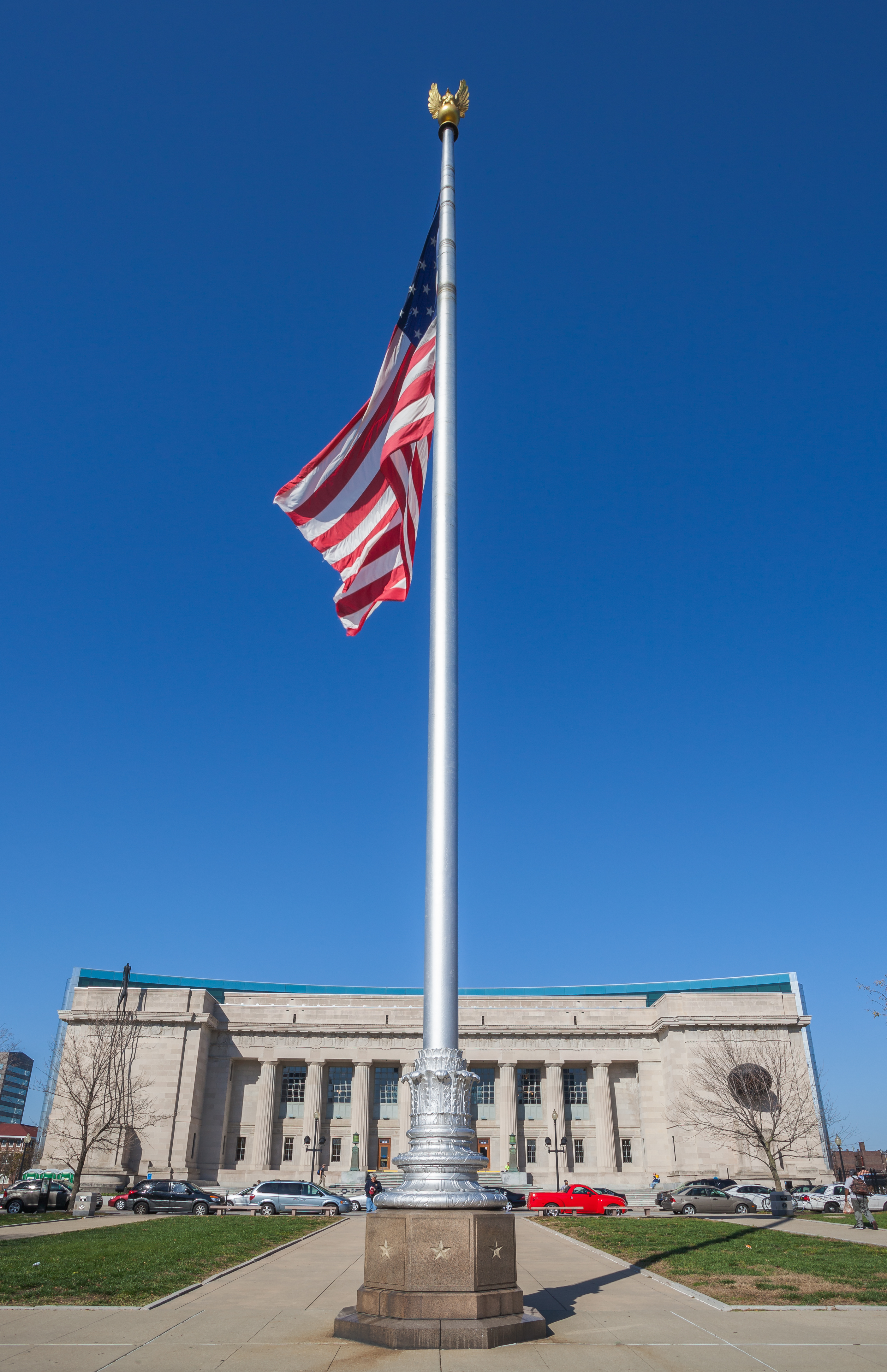 Central library, Indianapolis, USA